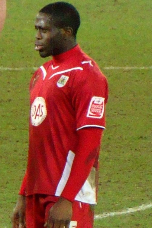 19/01/10 Cardiff City V Bristol City, FA Cup 3rd Round. Cardiff City Stadium, Cardiff, Wales